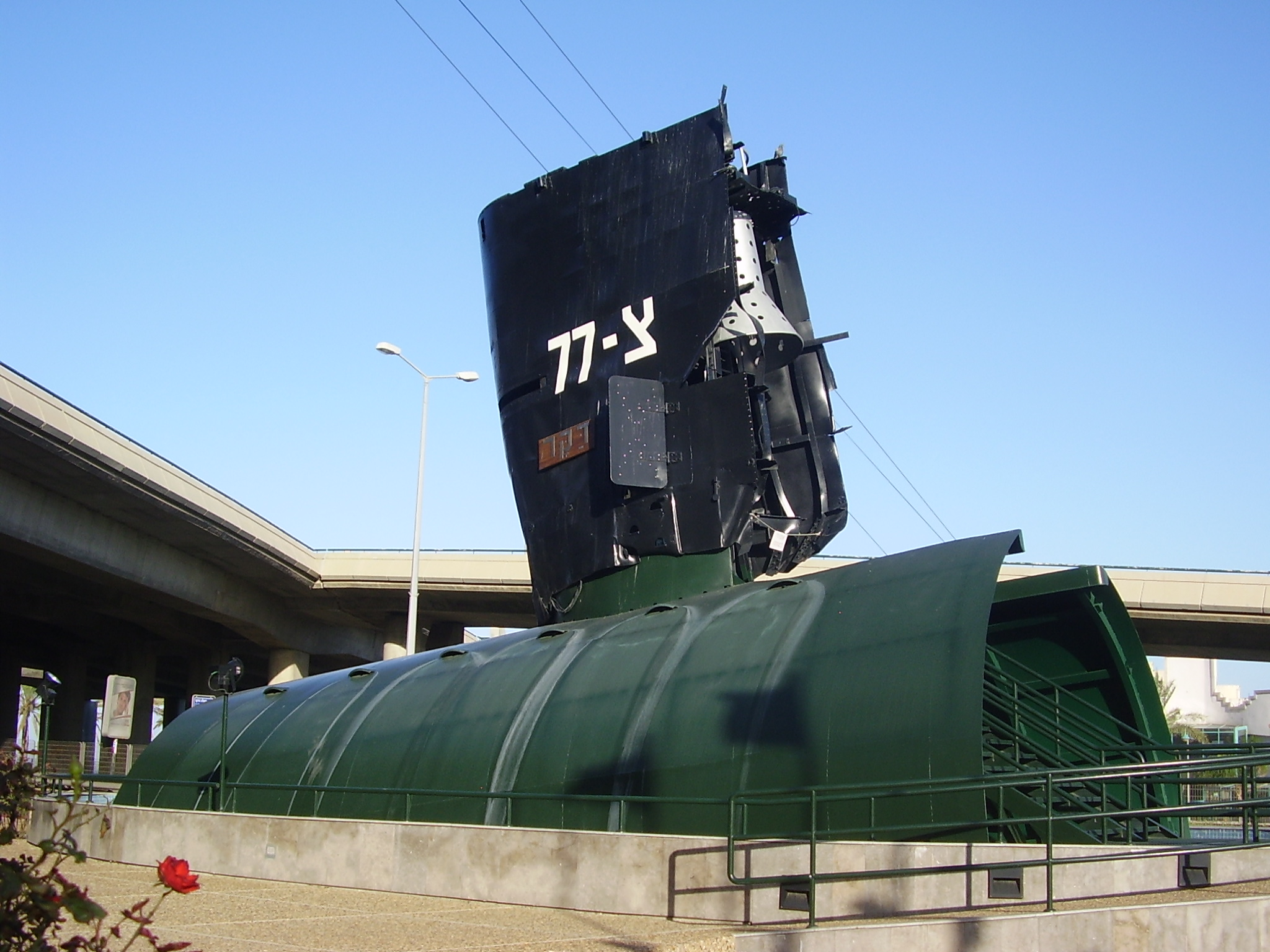 bridge of the submarine dakar